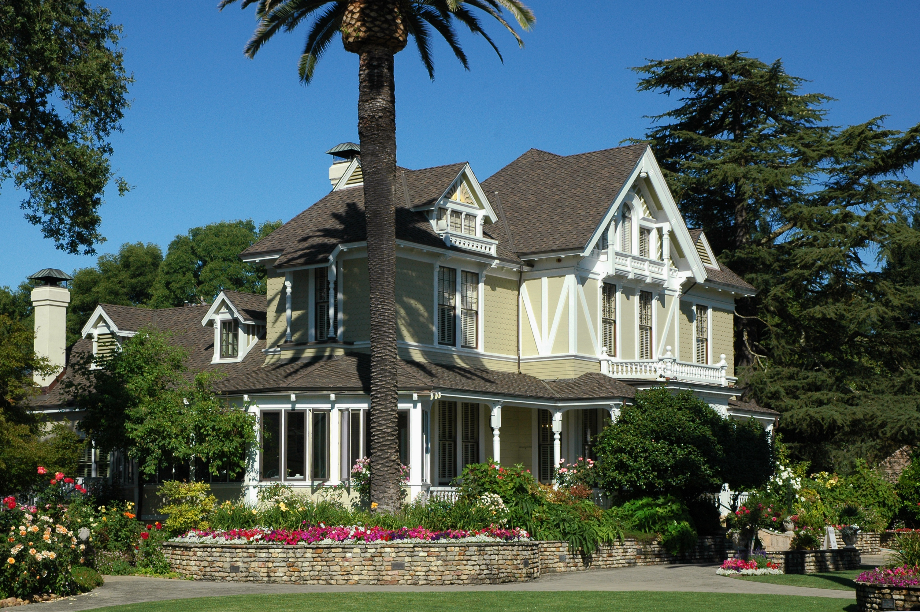 Sutter Home Winery in St. Helena, Napa County, California. This house is the one featured on the wine labels.